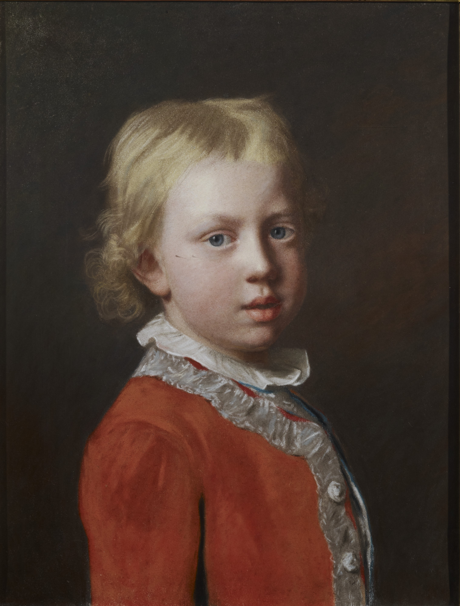 Portrait of Prince Frederick of Great Britain (1750-1765)